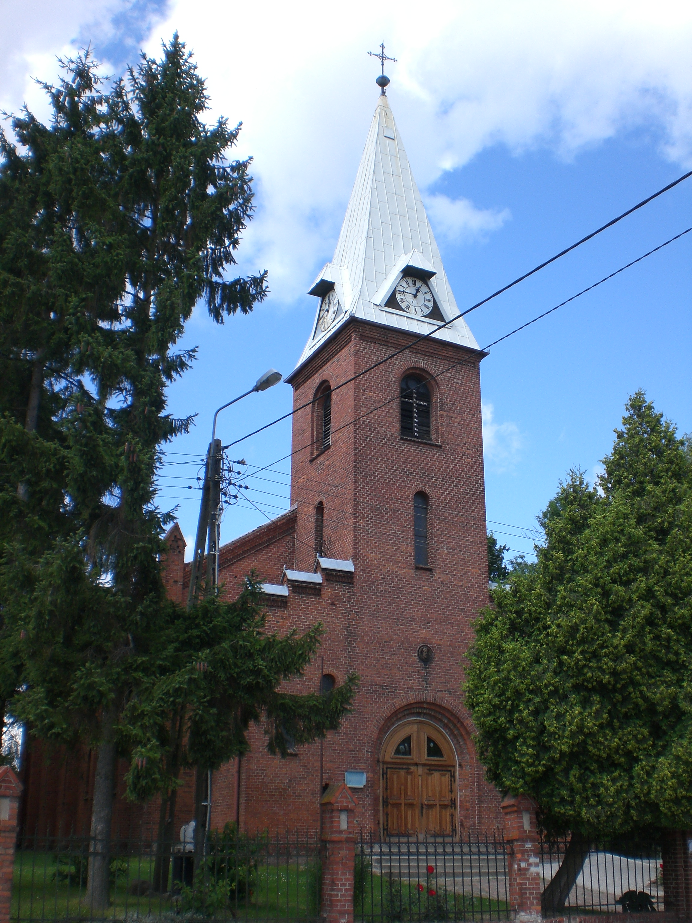 Church of the Transfiguration in Sobowidz